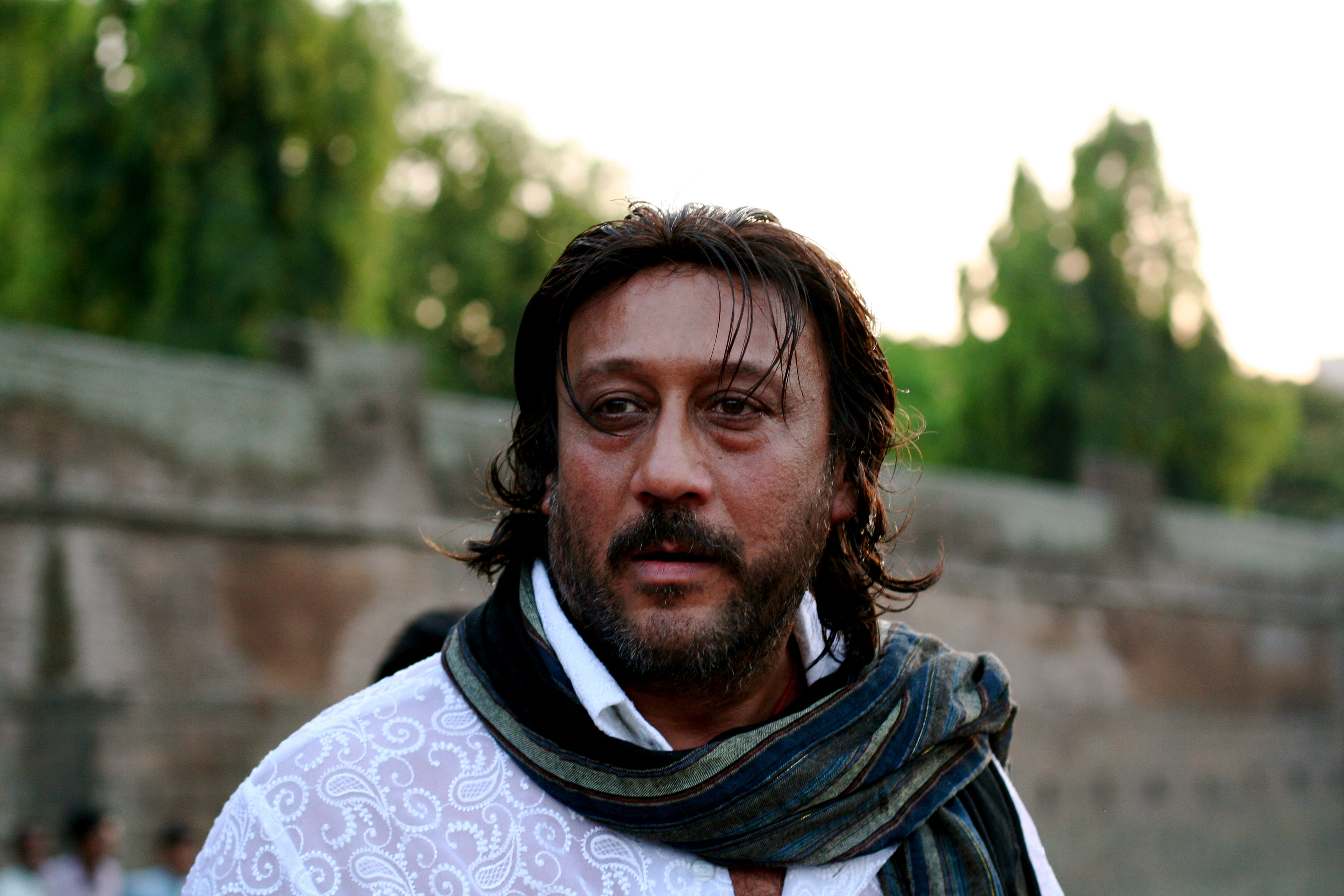 Jackie Shroff, Pune Festival